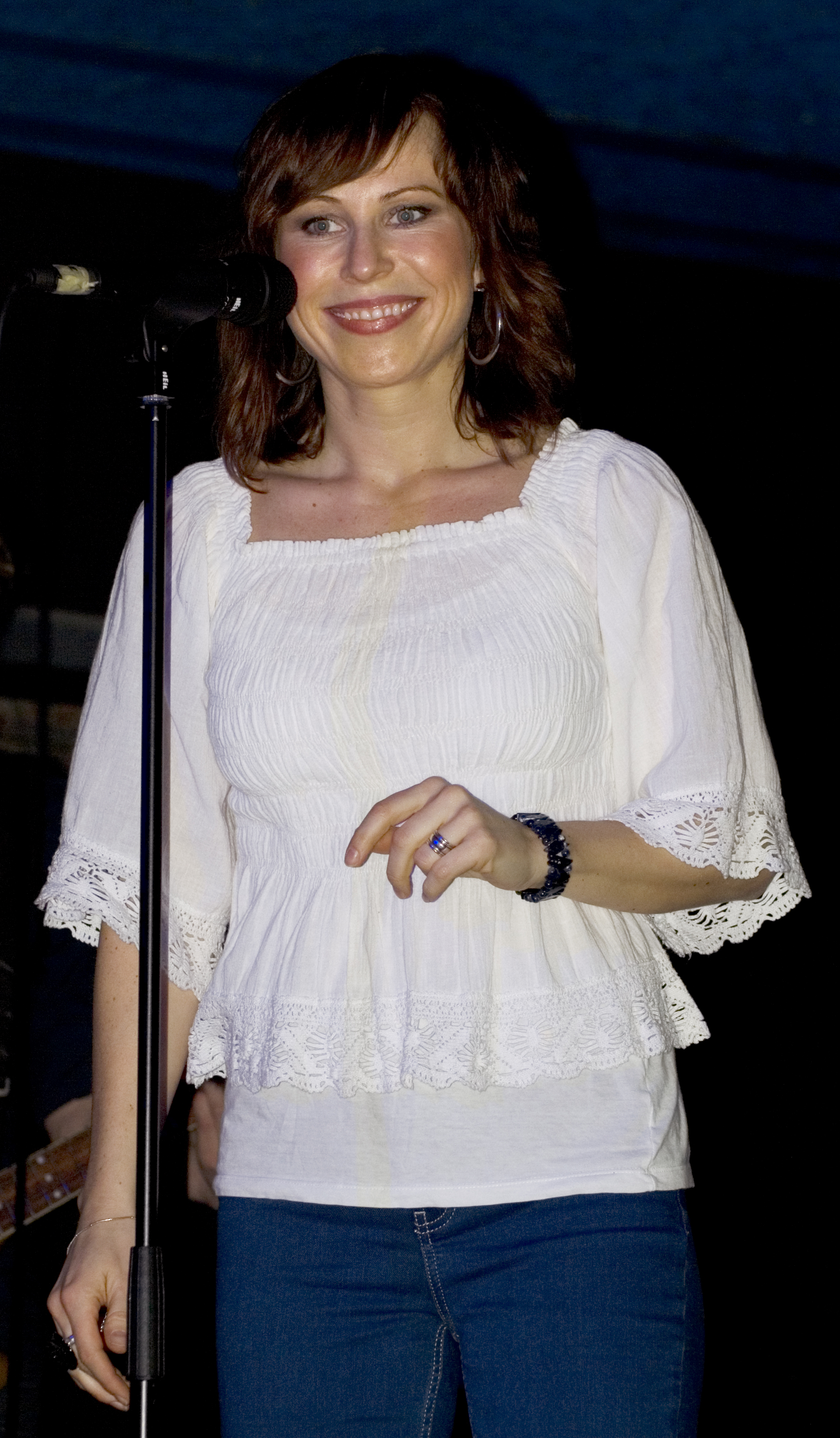 Silje Wergeland, singer of The Gathering. Budapest concert, 31 January 2010.